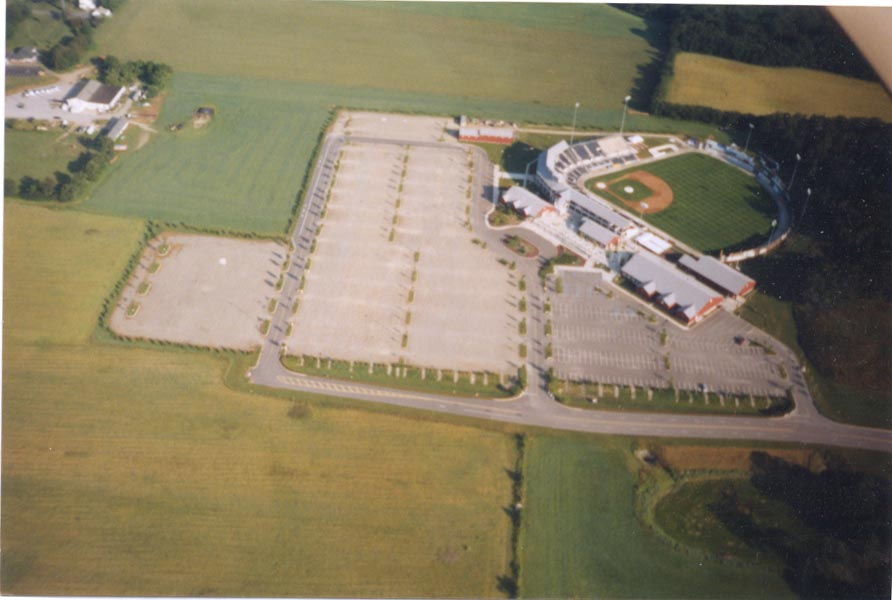 Cardinals